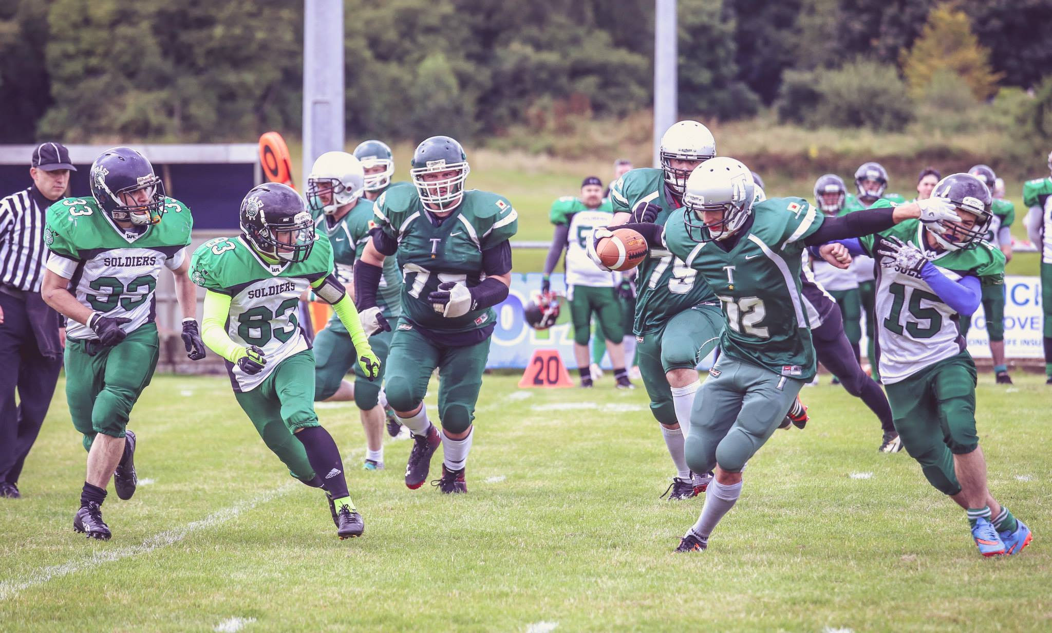 Jona Siri breaks free in the IAFL2 Bowl game